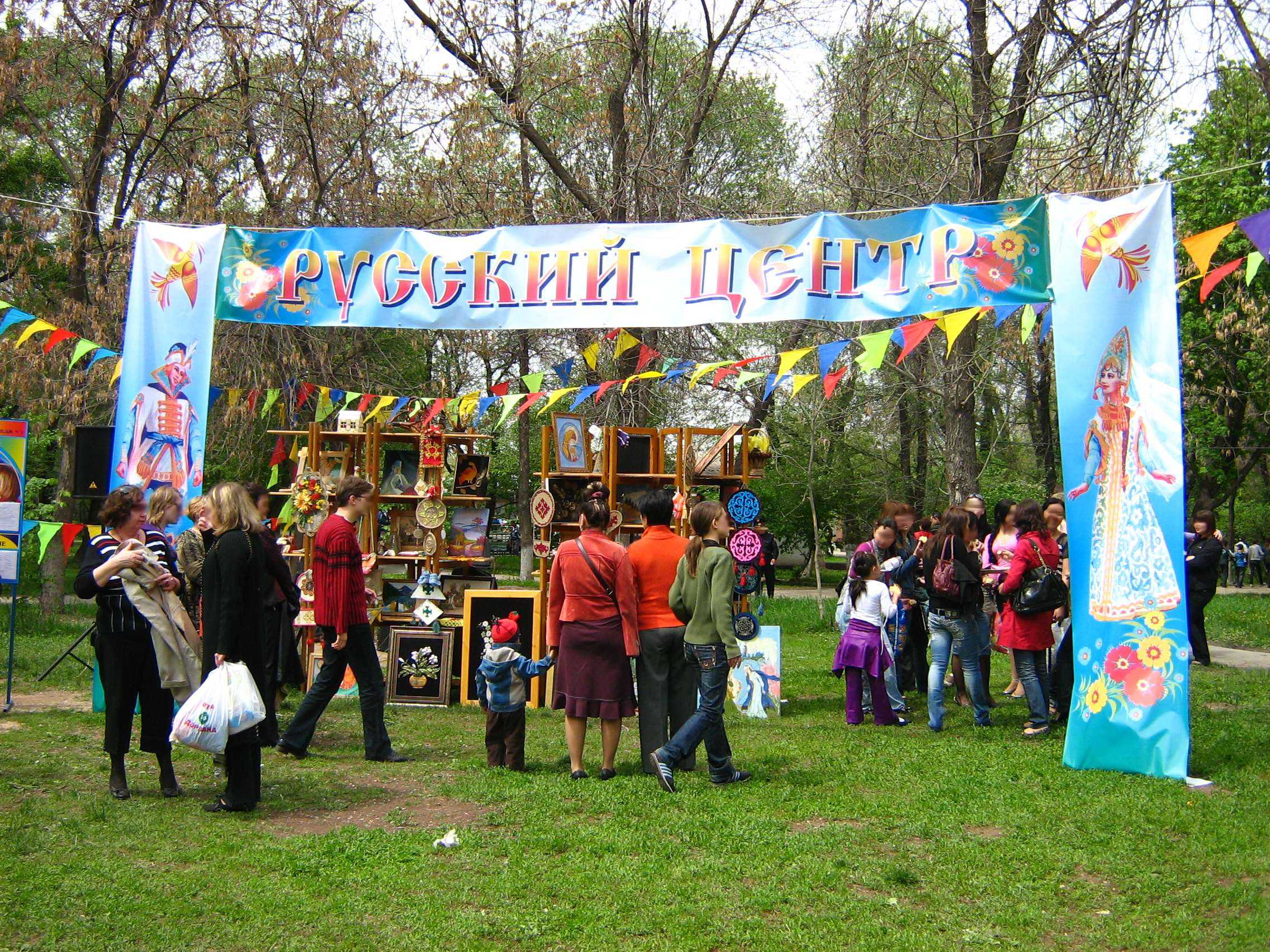 The exhibition of the Russian Culture Center in Almaty, Kazakhstan